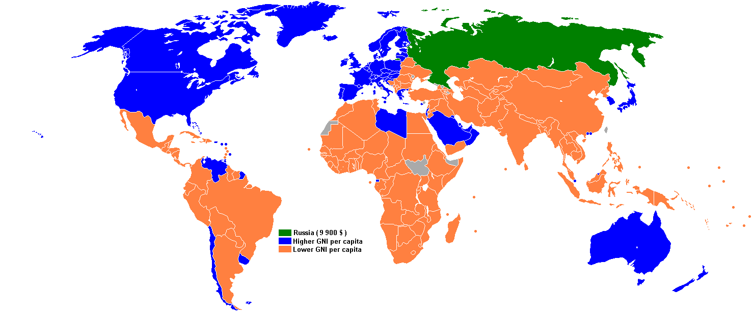 Map of lower/higher GNI compared to Russian GNI per capita